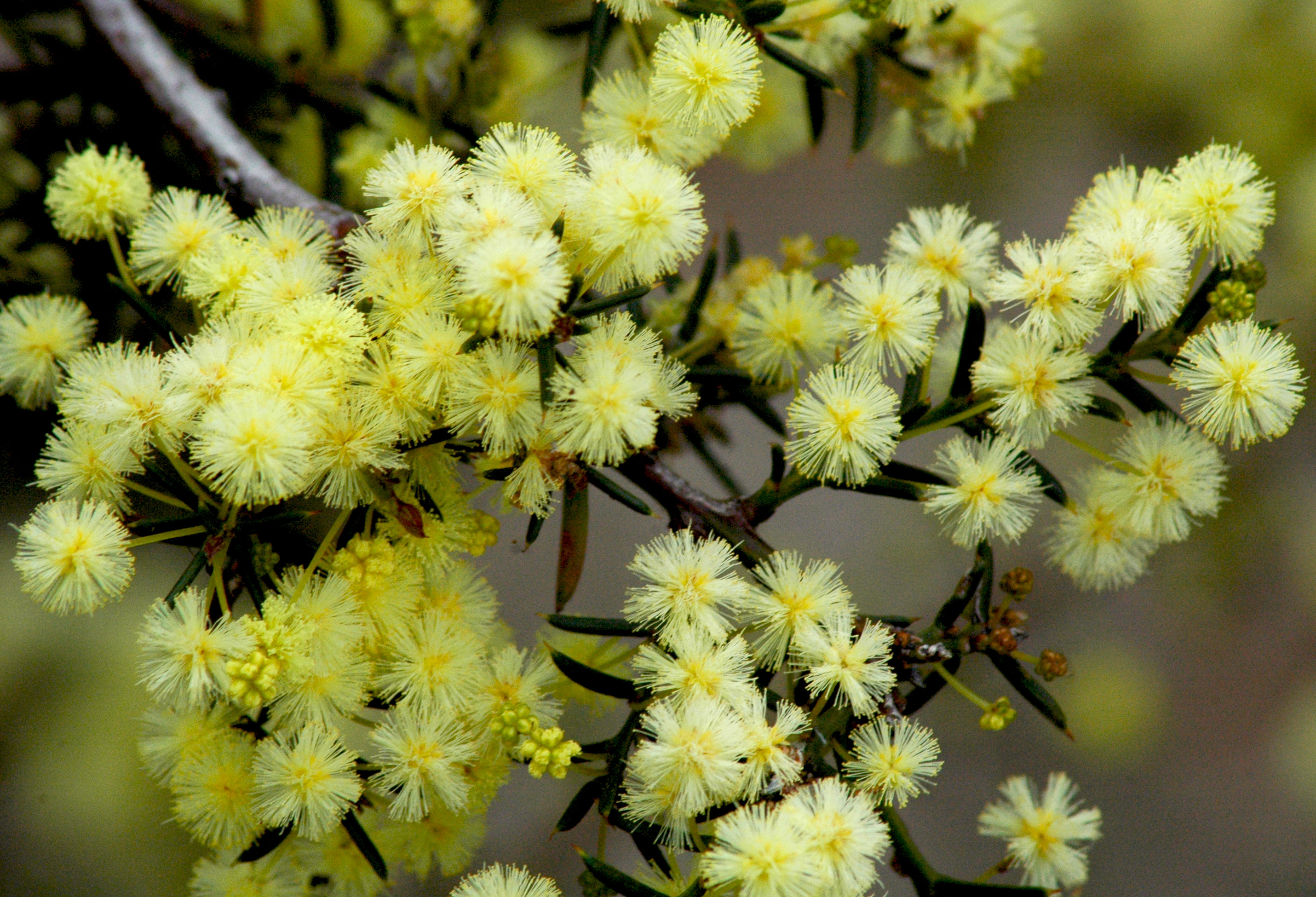 Spreading Wattle or Early Wattle, Acacia genistifolia, Tasmania